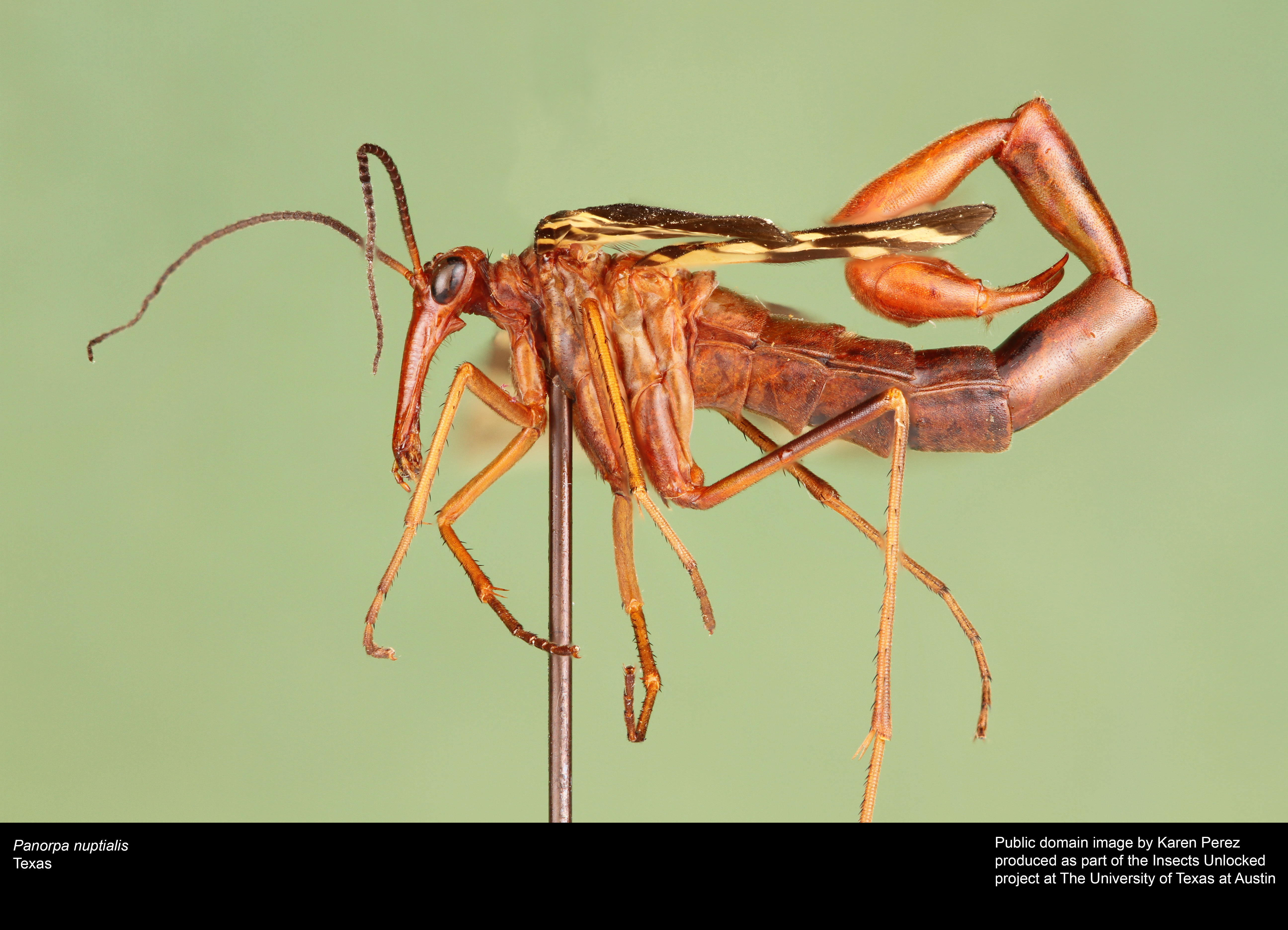 Public domain image by Karen Perez produced as part of the Insects Unlocked project at The University of Texas at Austin